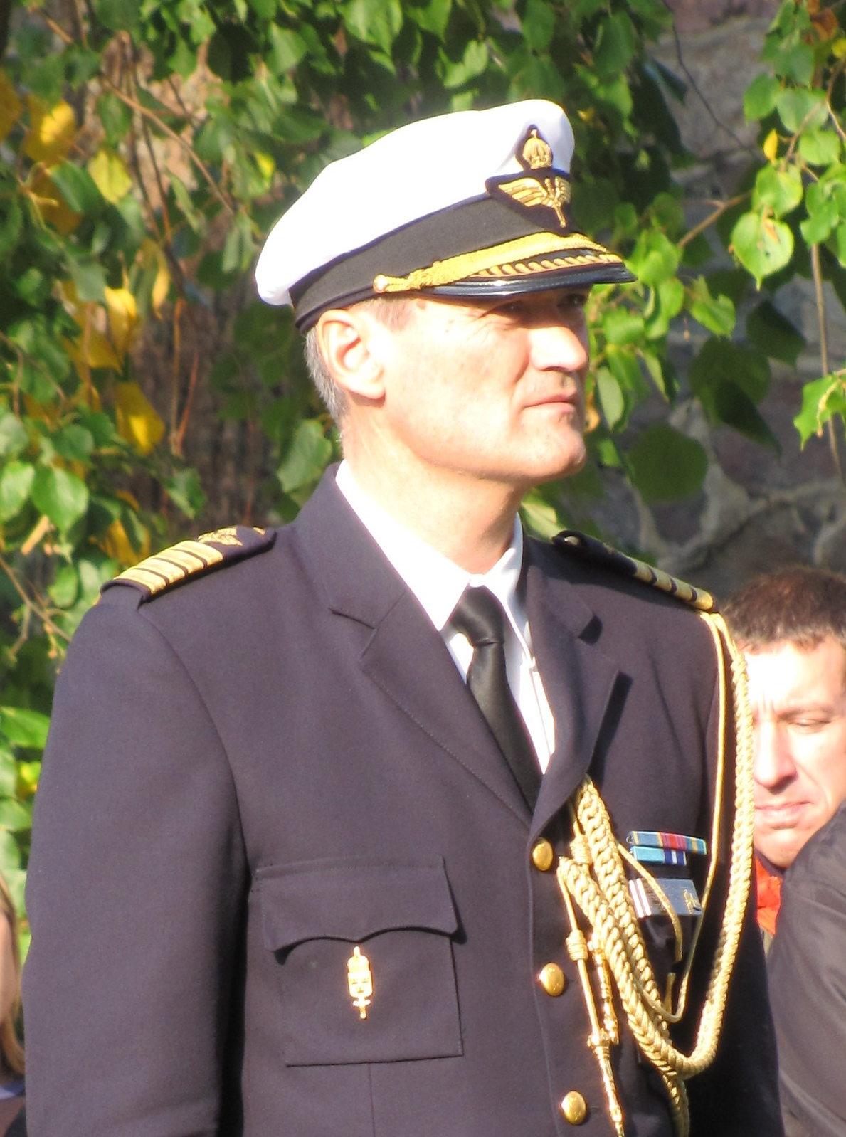 Swedish military attaché to Finland colonel Ingemar Adolfsson. Photographed in Suomenlinna at the 300th birthday ceremony of Augustin Ehrensvärd.